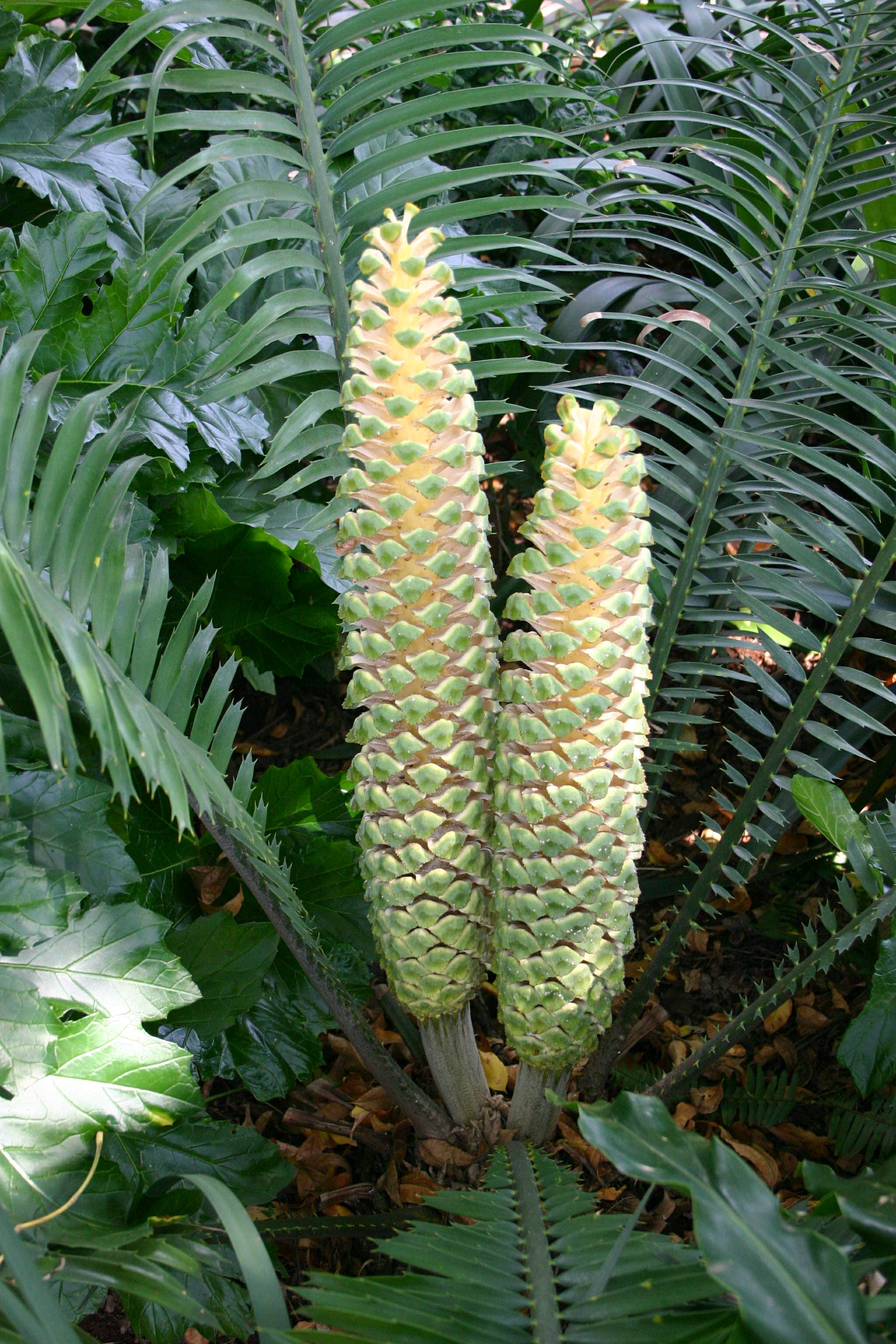 Male cones of Encephalartos villosus Lemaire, cultivated in Pretoria garden